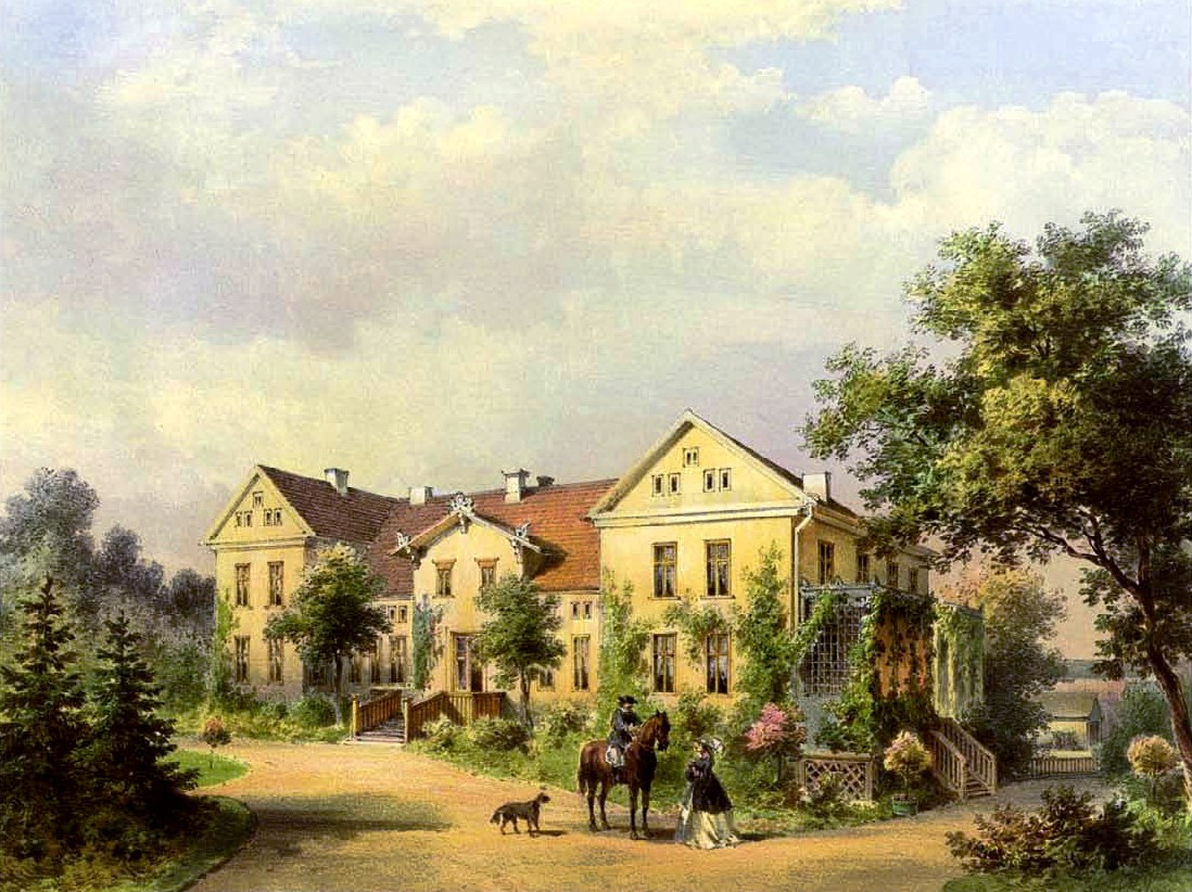 Manor in Potrzebowice